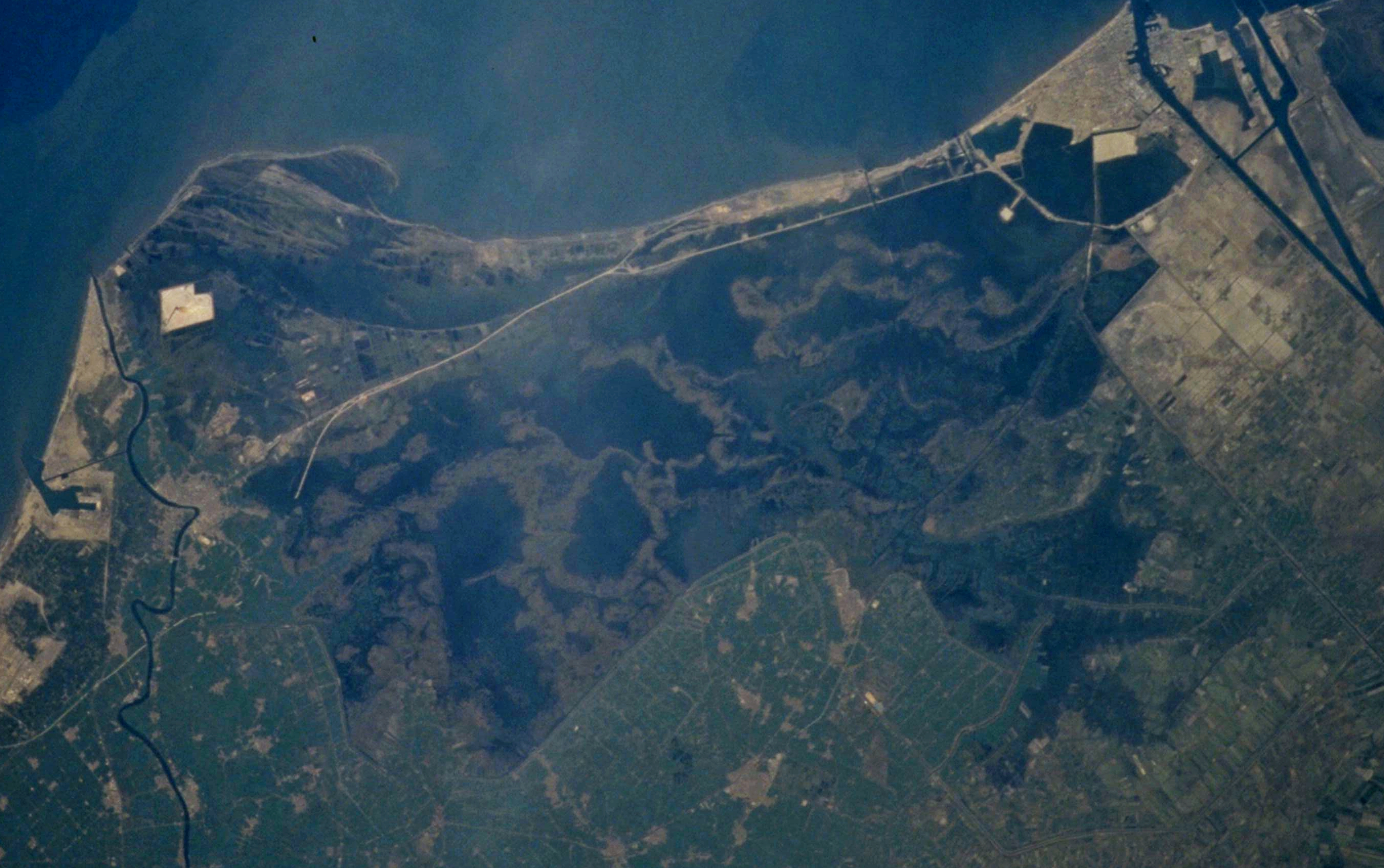 LAKE MANZALA